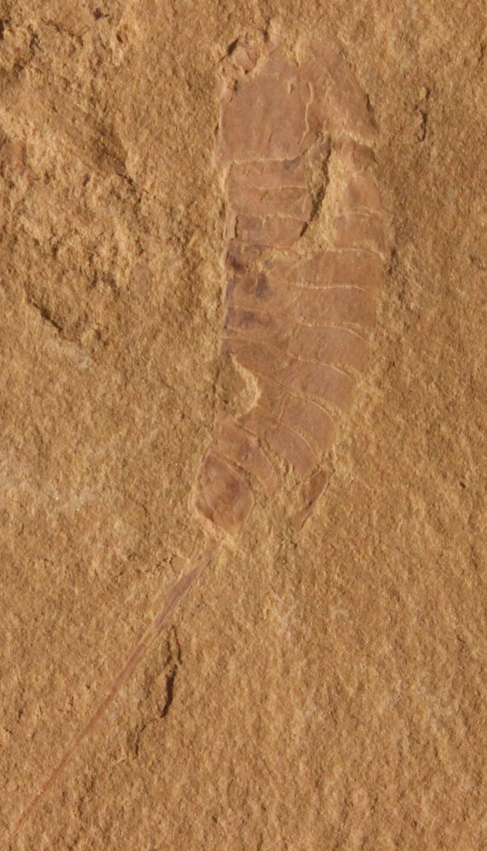 Cyclopites vulgaris, an aglaspidid from the Saint Lawrence Formation; Upper Cambrian; Baraboo, Wisconsin.